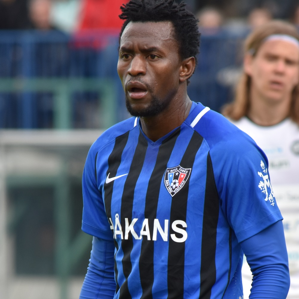 Football player Abdoulie Mansally (FC Inter Turku)